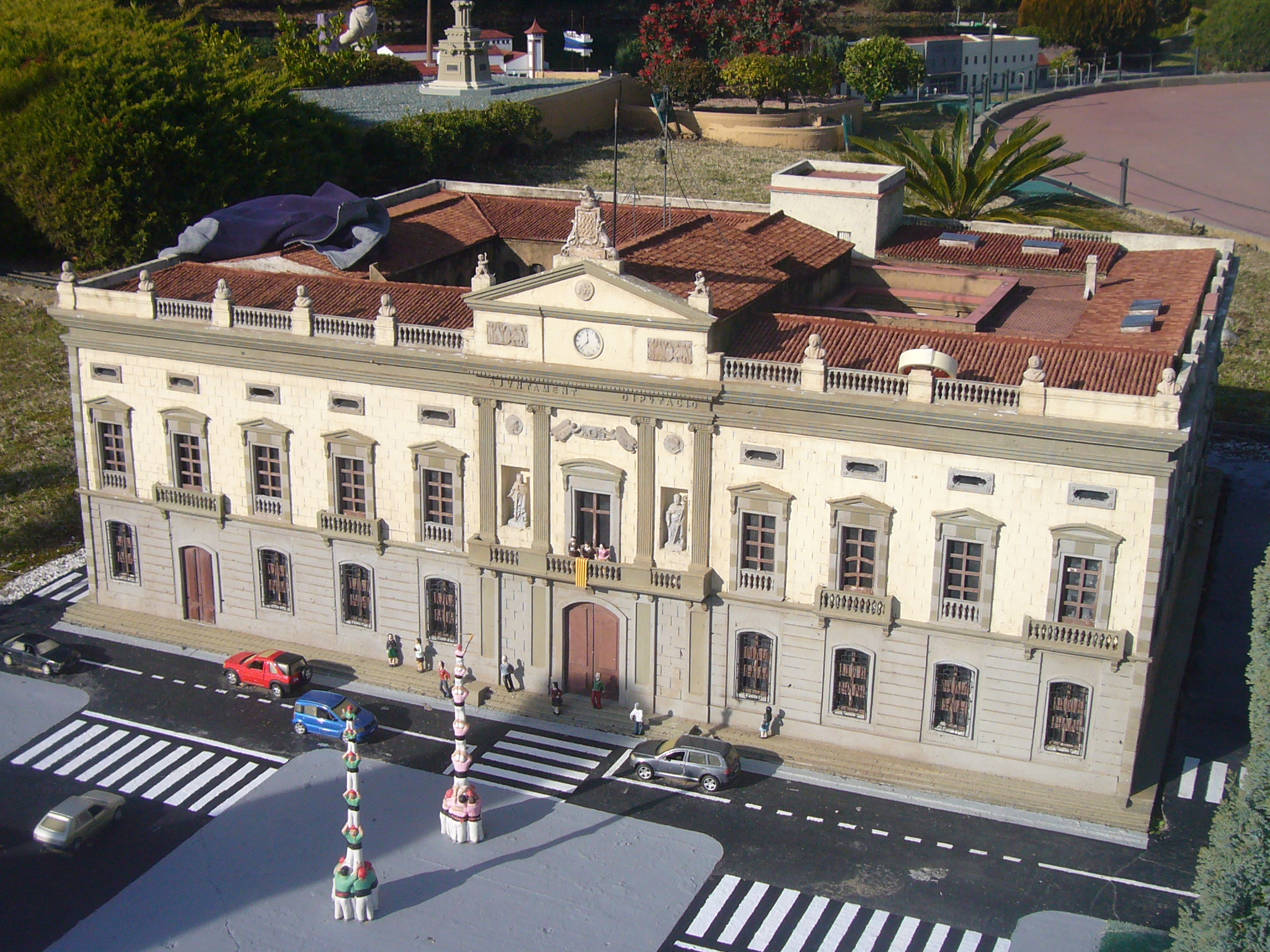 Scale model at the "Catalunya en Miniatura" miniature park : Tarragona city hall building.